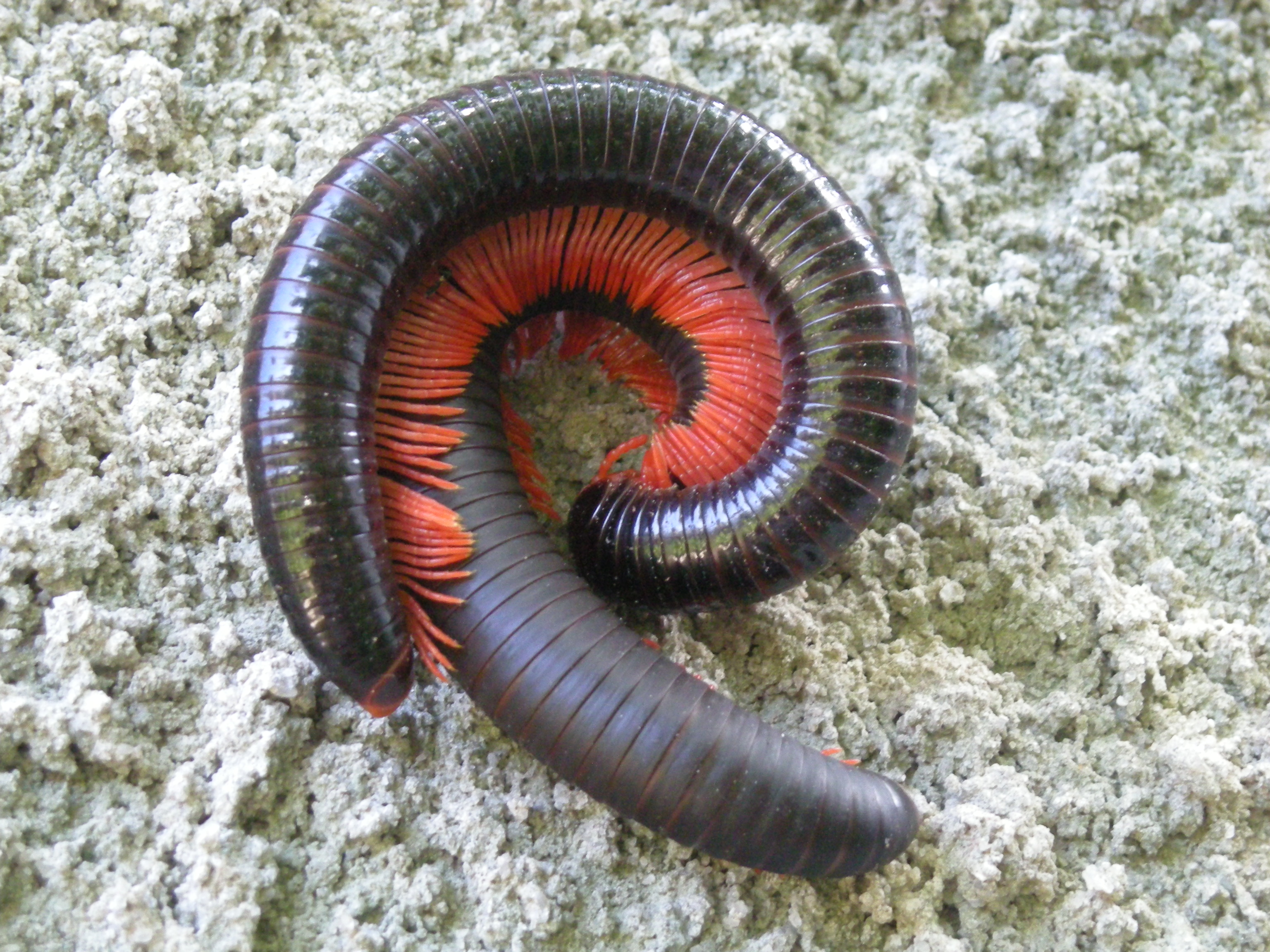 A picture of two millipedes (Archispirostreptus gigas) mating.